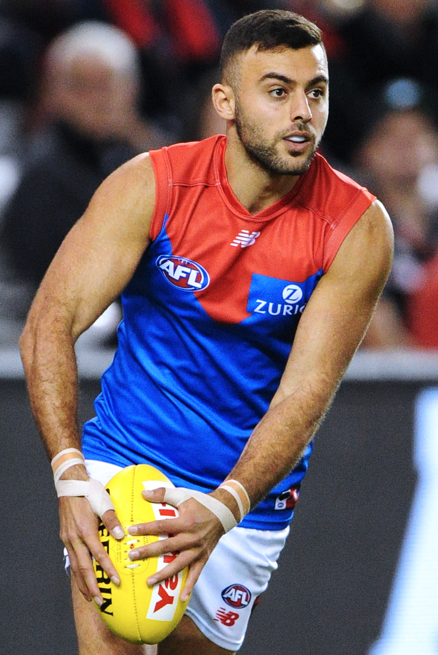 Christian Salem of Melbourne during the 2018 AFL round 6 match between Essendon and Melbourne at Etihad Stadium on Sunday, 29 April 2018 in Melbourne, Victoria.